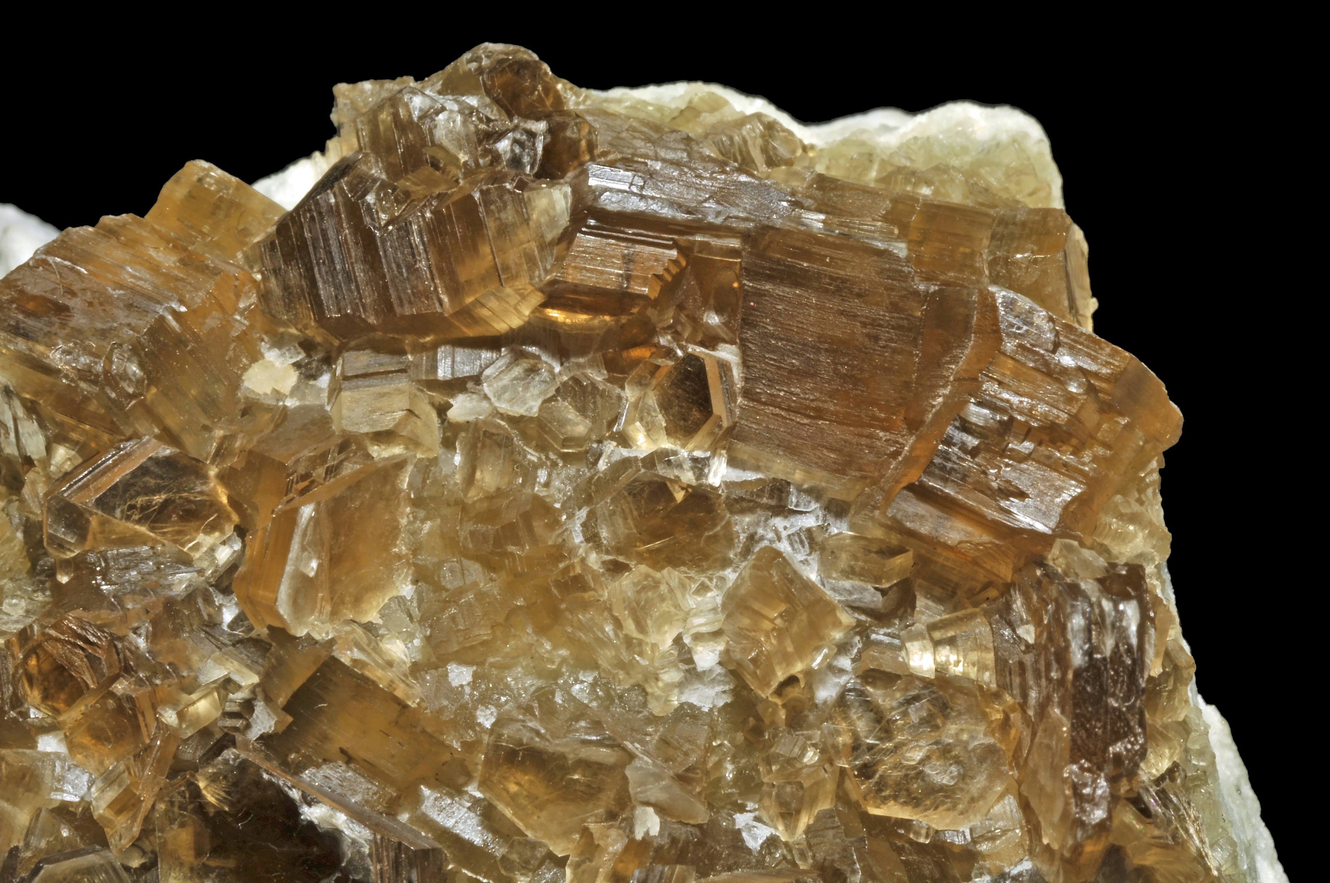 mica var. phlogopite : Ladjuar Medam (Lajur Madan ; Lapis-lazuli Mine ; Lapis-lazuli deposit), Sar-e Sang (Sar Sang ; Sary Sang), Koksha Valley (Kokscha Valley ; Kokcha Valley), Khash & Kuran Wa Munjan Districts, Badakhshan Province (Badakshan Province ; Badahsan Province), Afghanistan - 15 mm, 11 mm